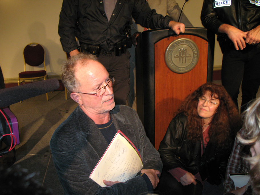 Bill Ayers speaks to audience members following a forum on education reform at Florida State University (January 12th, 2009)